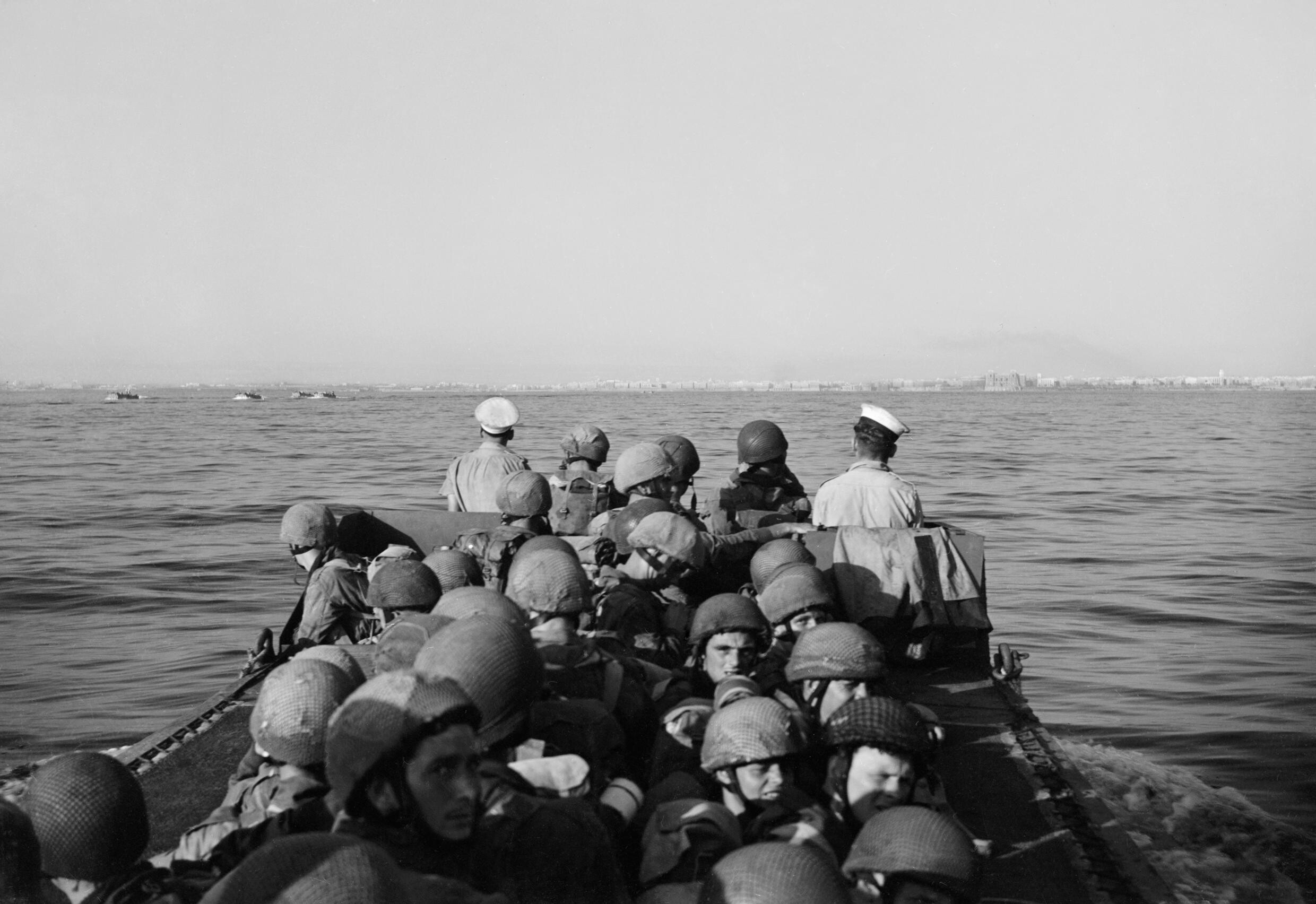 British airborne troops approaching Taranto in a landing craft, during the invasion of Italy, 14 September 1943. Taranto, 9 September 1943 (Operation Slapstick): View from a landing craft, loaded with soldiers, as it approaches Taranto harbour, bringing reinforcements for the operation.